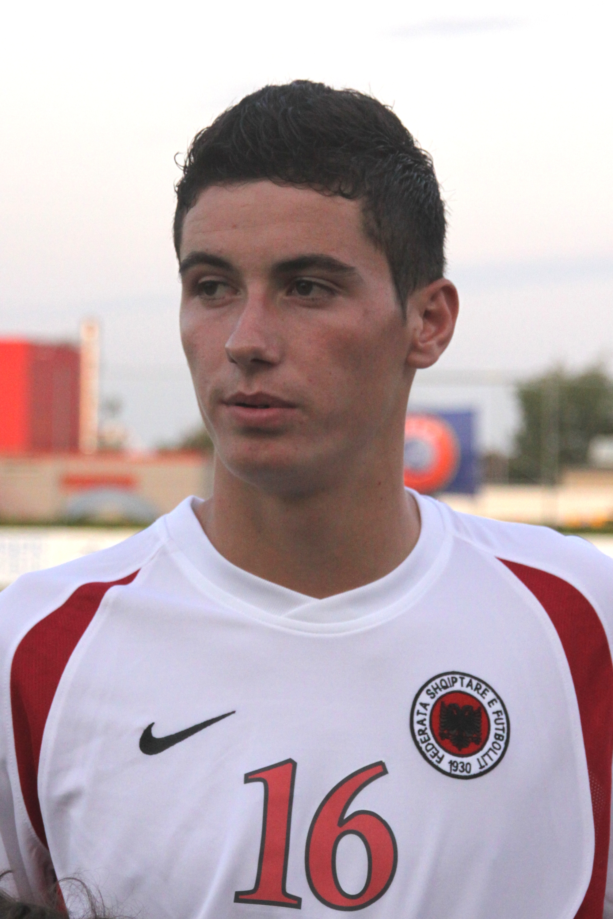 Odise Roshi (KS Flamurtari Vlorë) - Albania national under-21 football team (1)